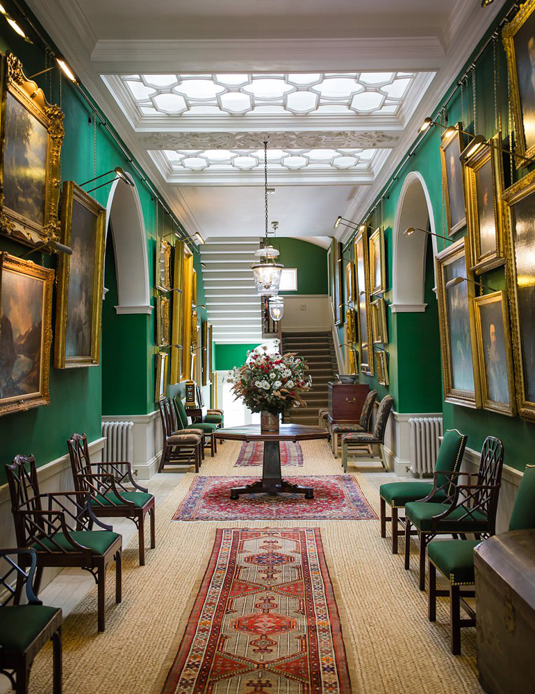 Dumfries House second floor interior